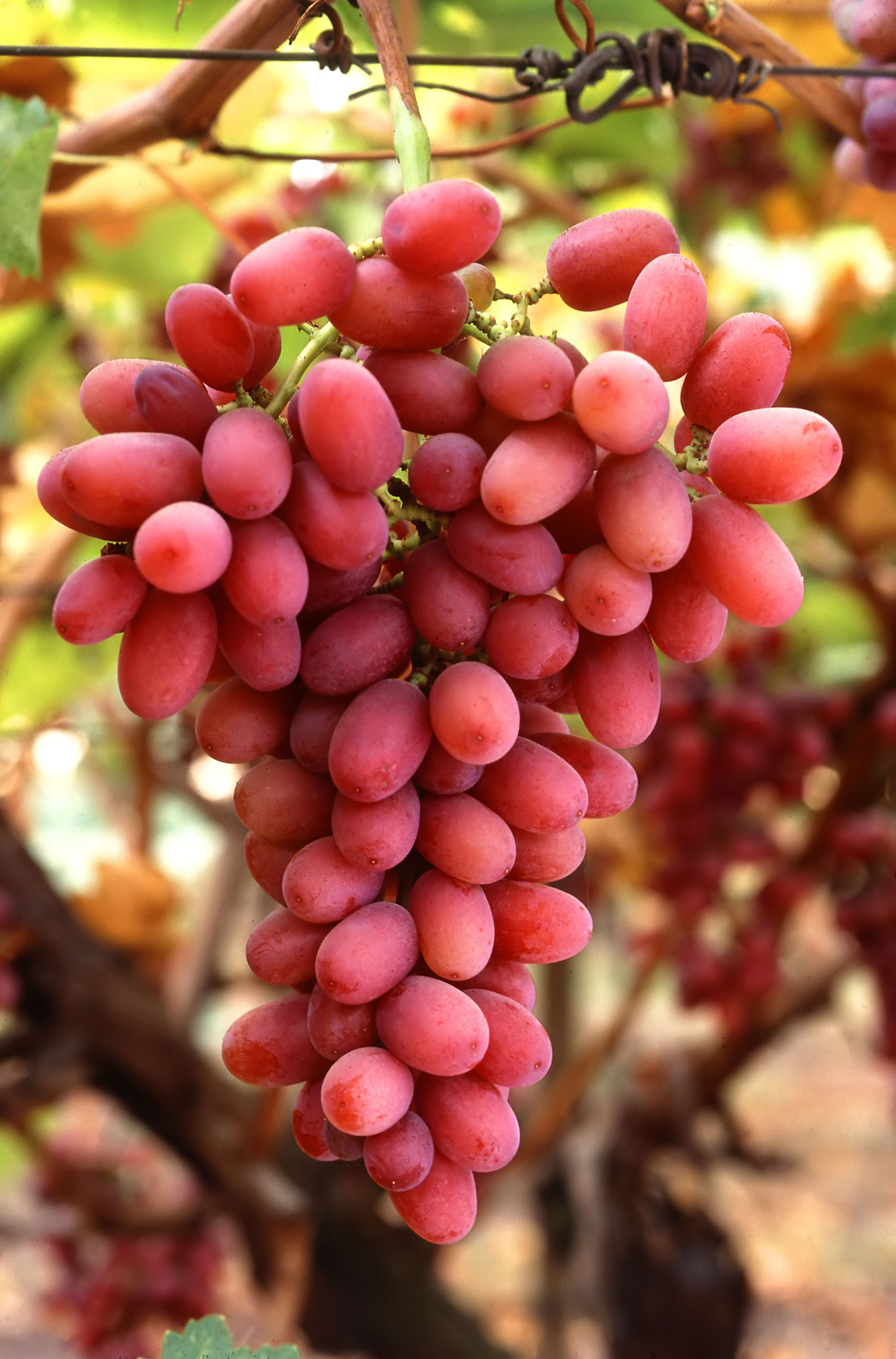 Commercial vineyards have planted more than one million of the ARS-developed Crimson Seedless grapevines.